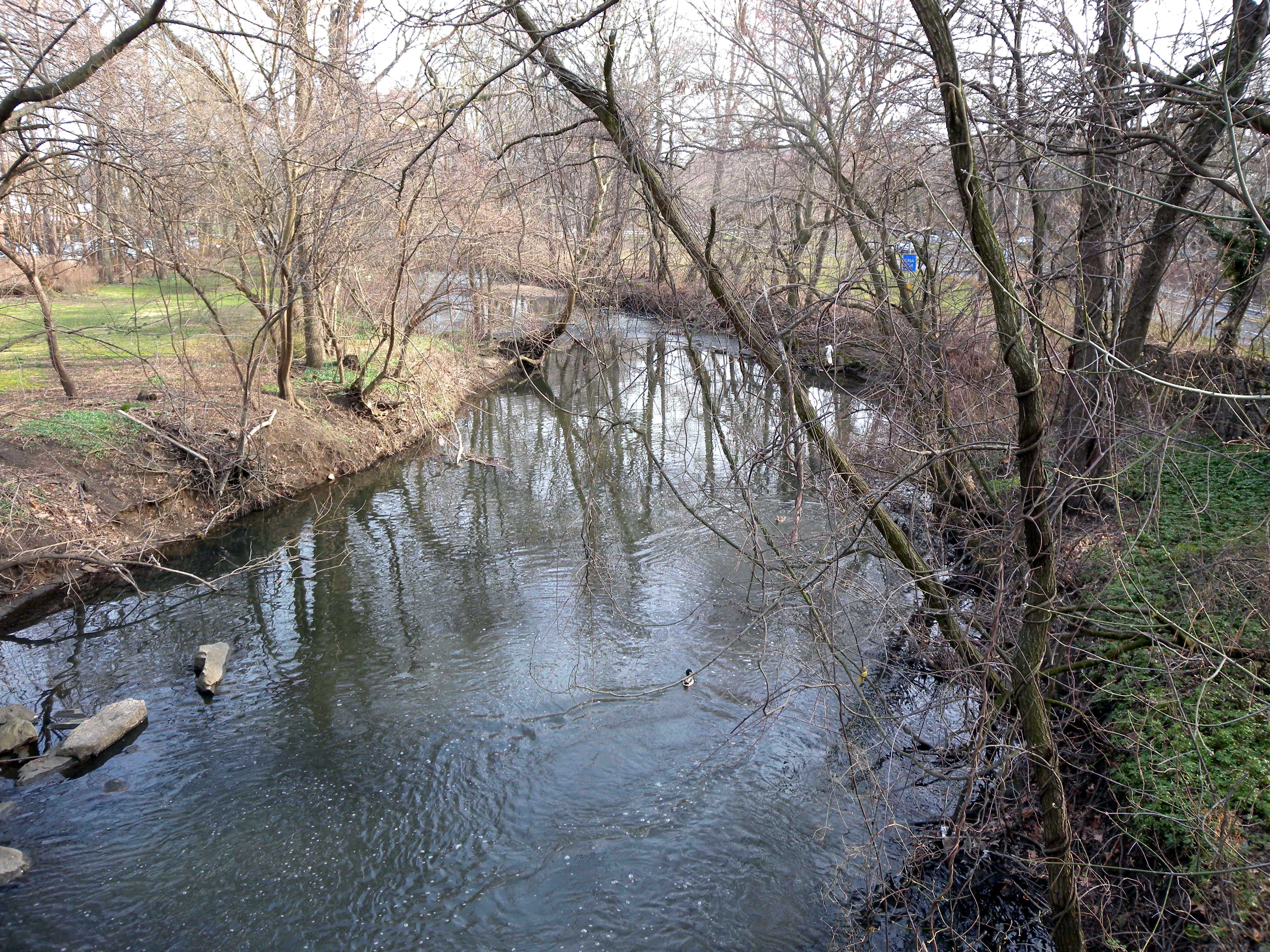 Looking downstream along Bronx River from Palmer Road / Palmer Avenue on a cloudy afternoon.